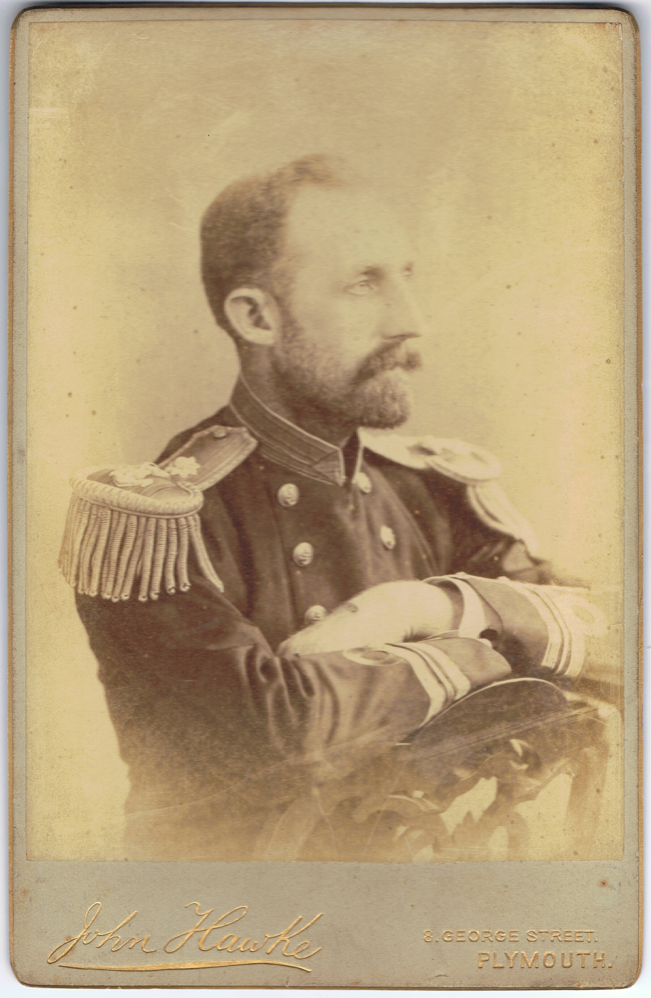 Admiral Sir William De Salis, Plymouth, England. Admiral SIR William Fane de Salis, K.B.E., M.V.O., Royal Navy, Retired (21 July, 1858 – 23 January, 1939) was an officer of the Royal Navy.